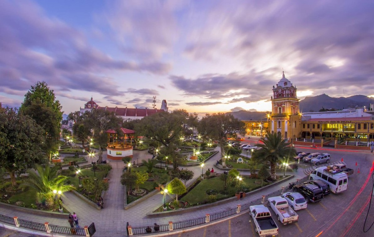 Central Park of Solola